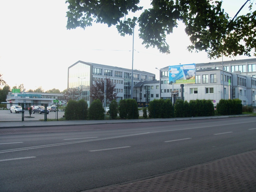 Ligocka Street in Katowice